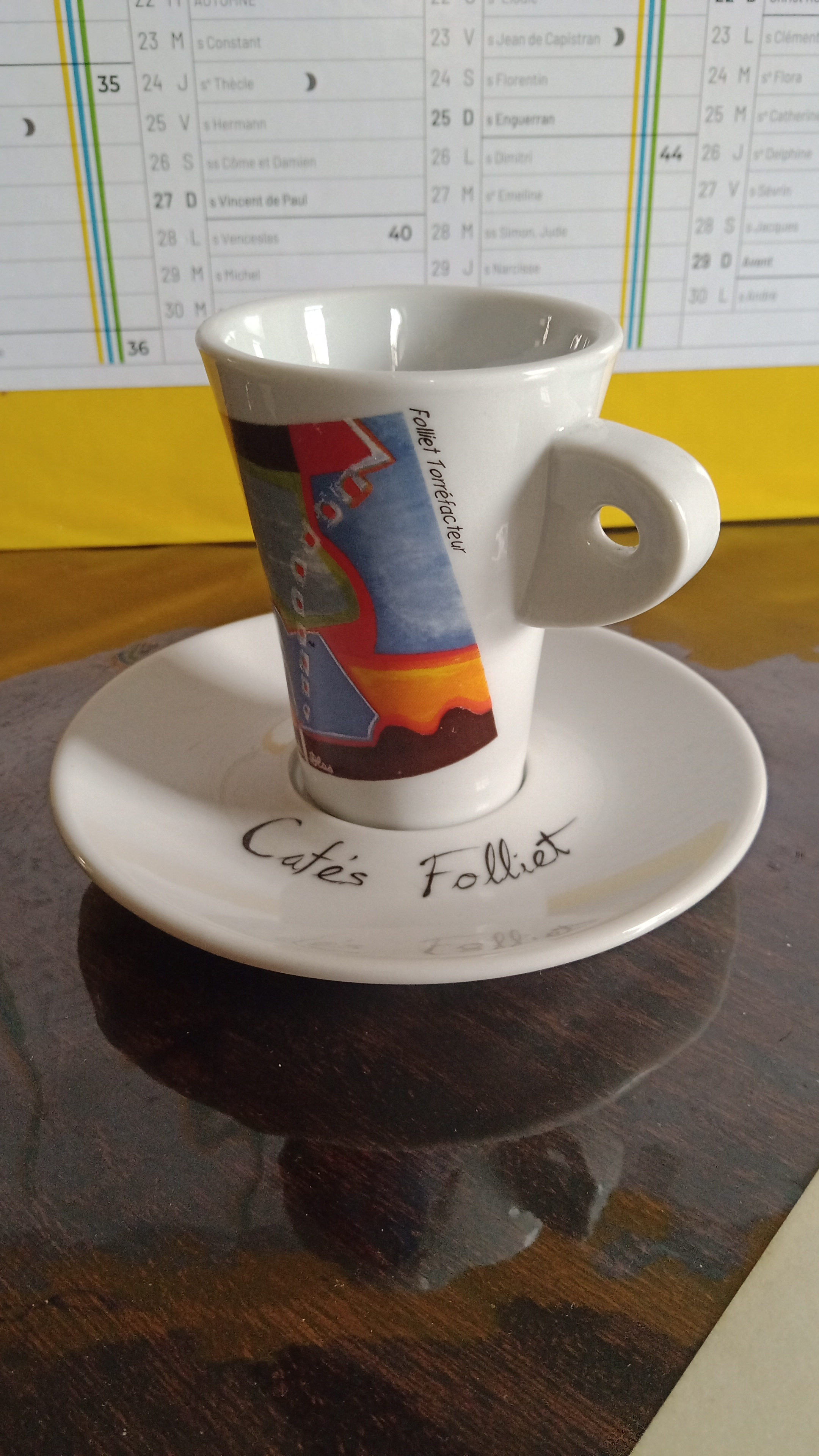 Folliet Coffe cup